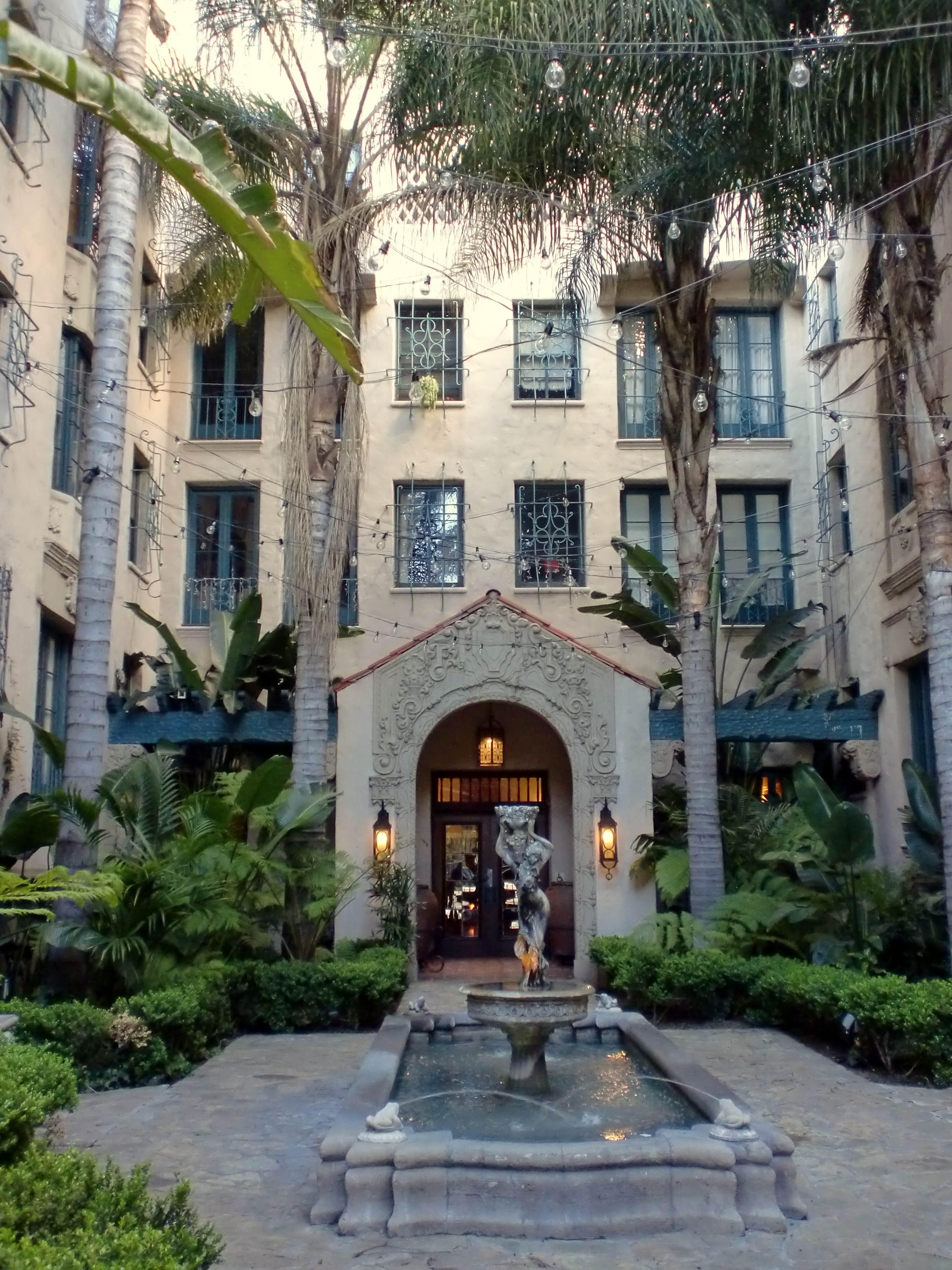 indoor courtyard of along in Los Angeles.